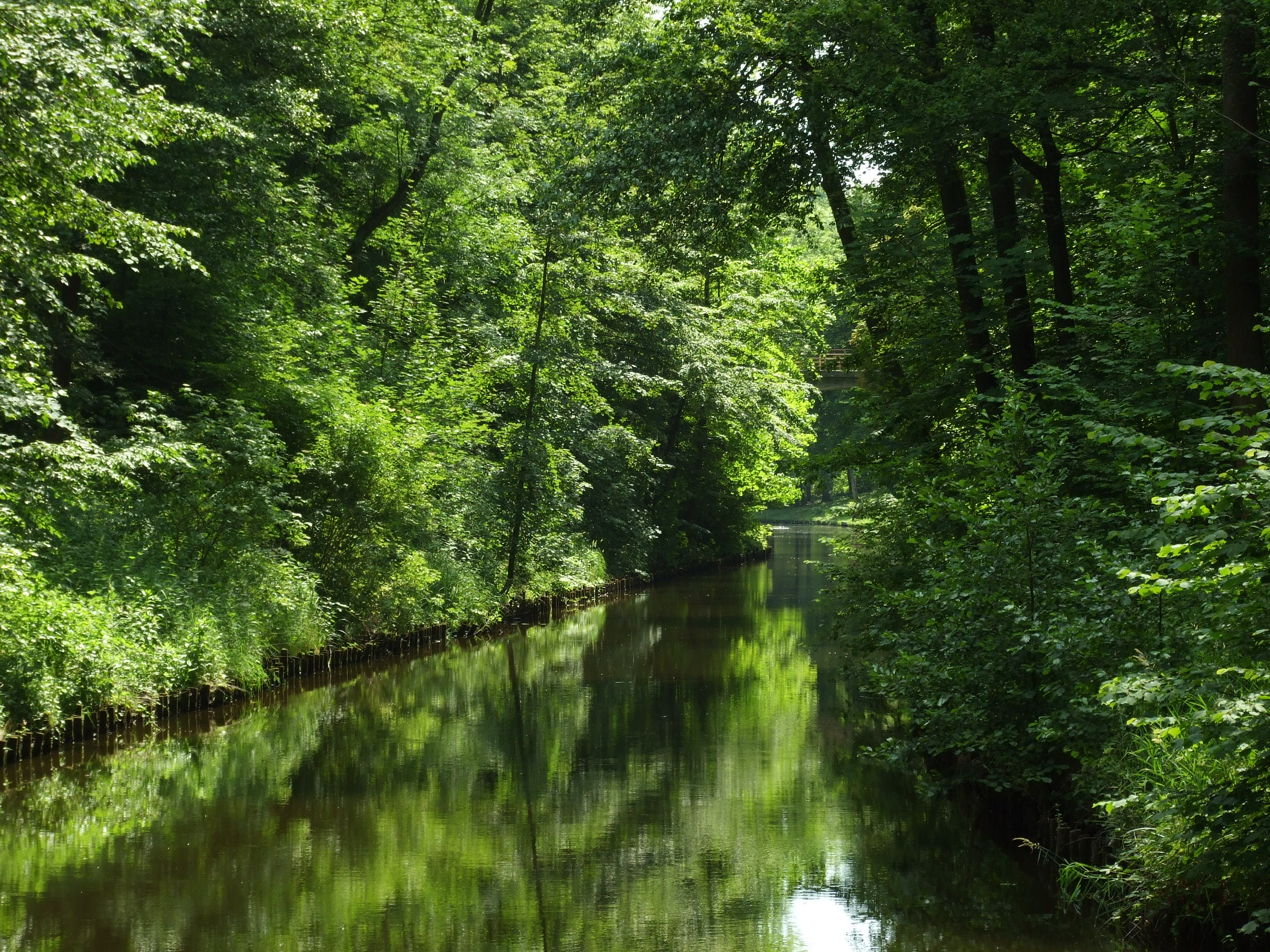 Elbląg Canal close to Buczyniec boat lift in Warmia-Masuria, Poland